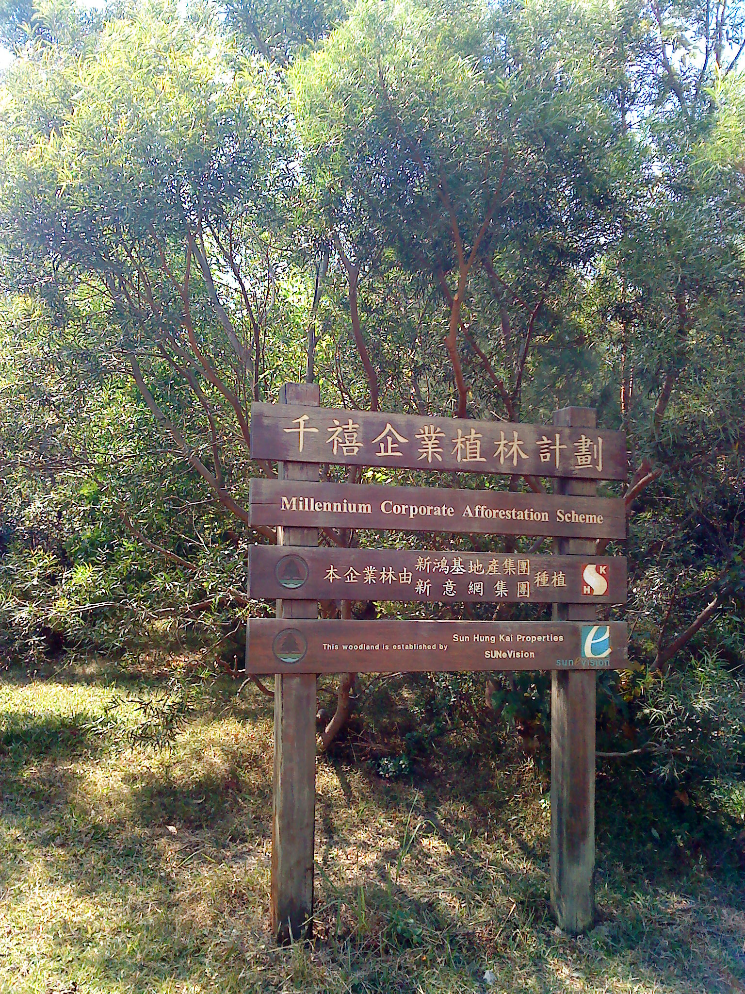 CAR by SHKP & SUNeVision